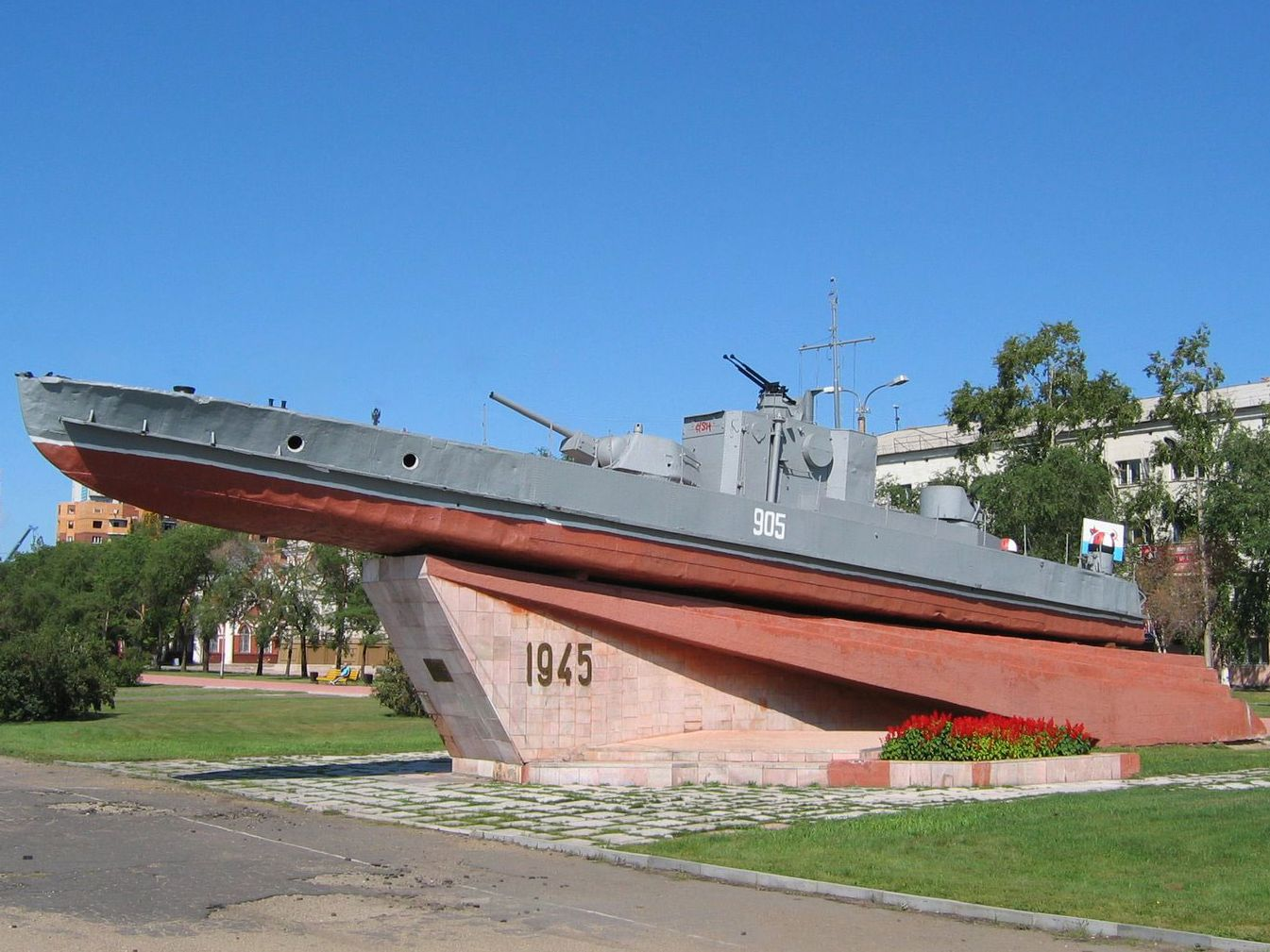 A monument of a project 1125 armoured cutter in Blagoveshchensk.